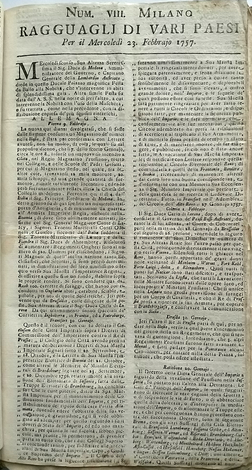 Milano Ragguaglj di varj paesi (newspaper) issue 23 Febr 1757